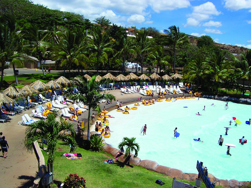 For more pictures and photos visit our Oahu Attractions set or the Go Oahu Card Collection For more info Go Oahu Card visit our website